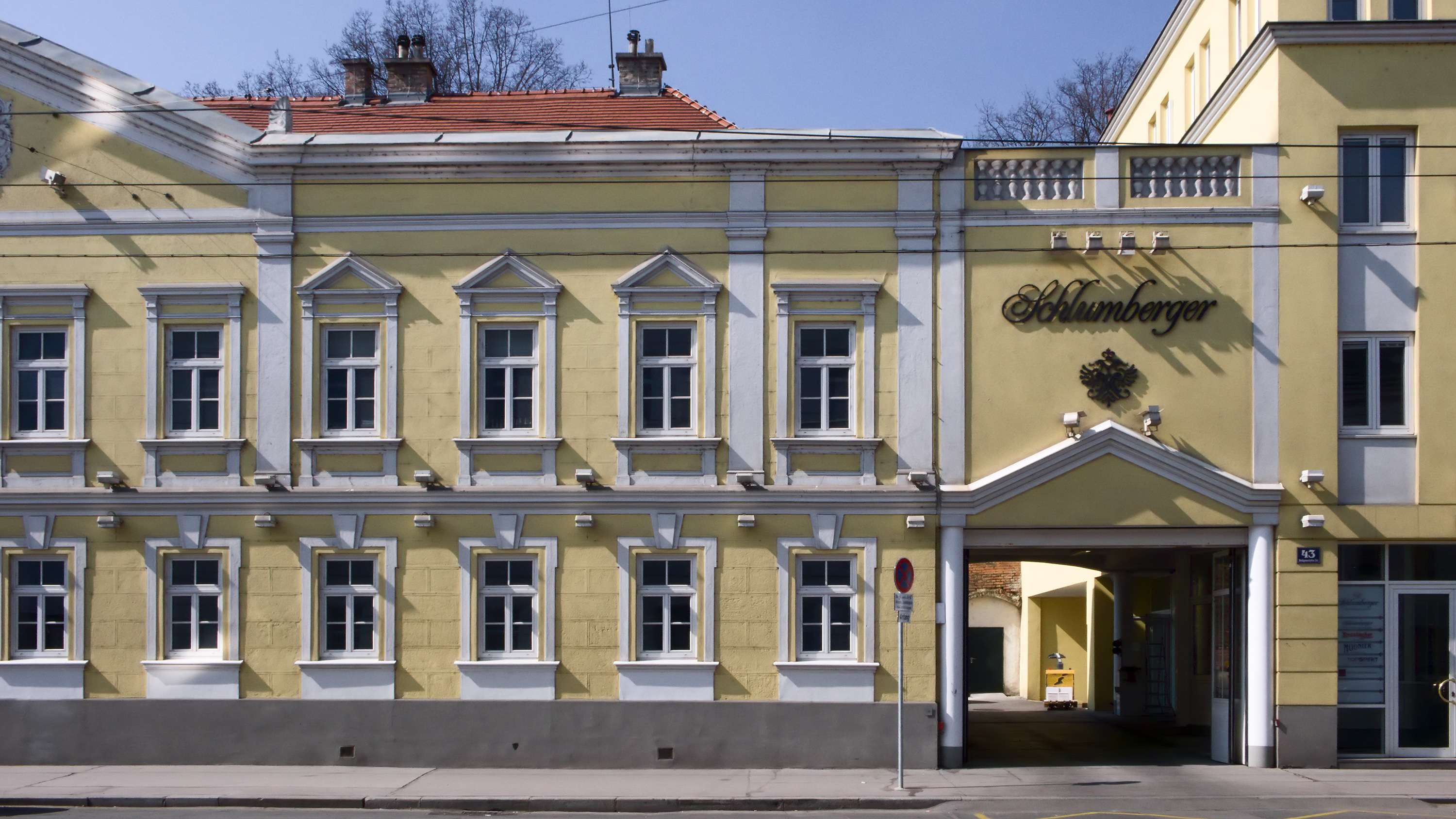 Schlumberger Wein- und Sektkellerei in Vienna Döbling